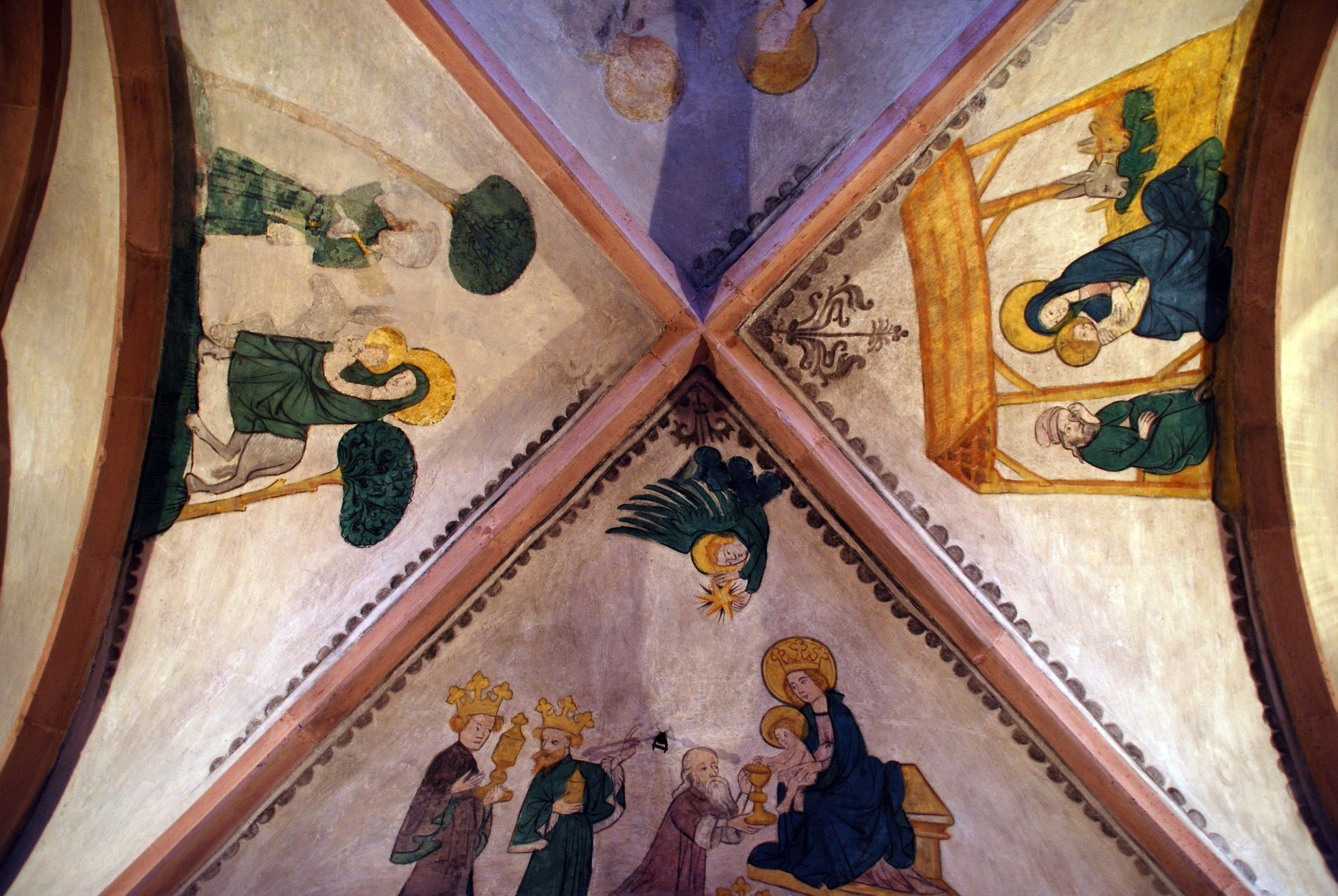 Basel Münster, ceiling paintings in the crypt